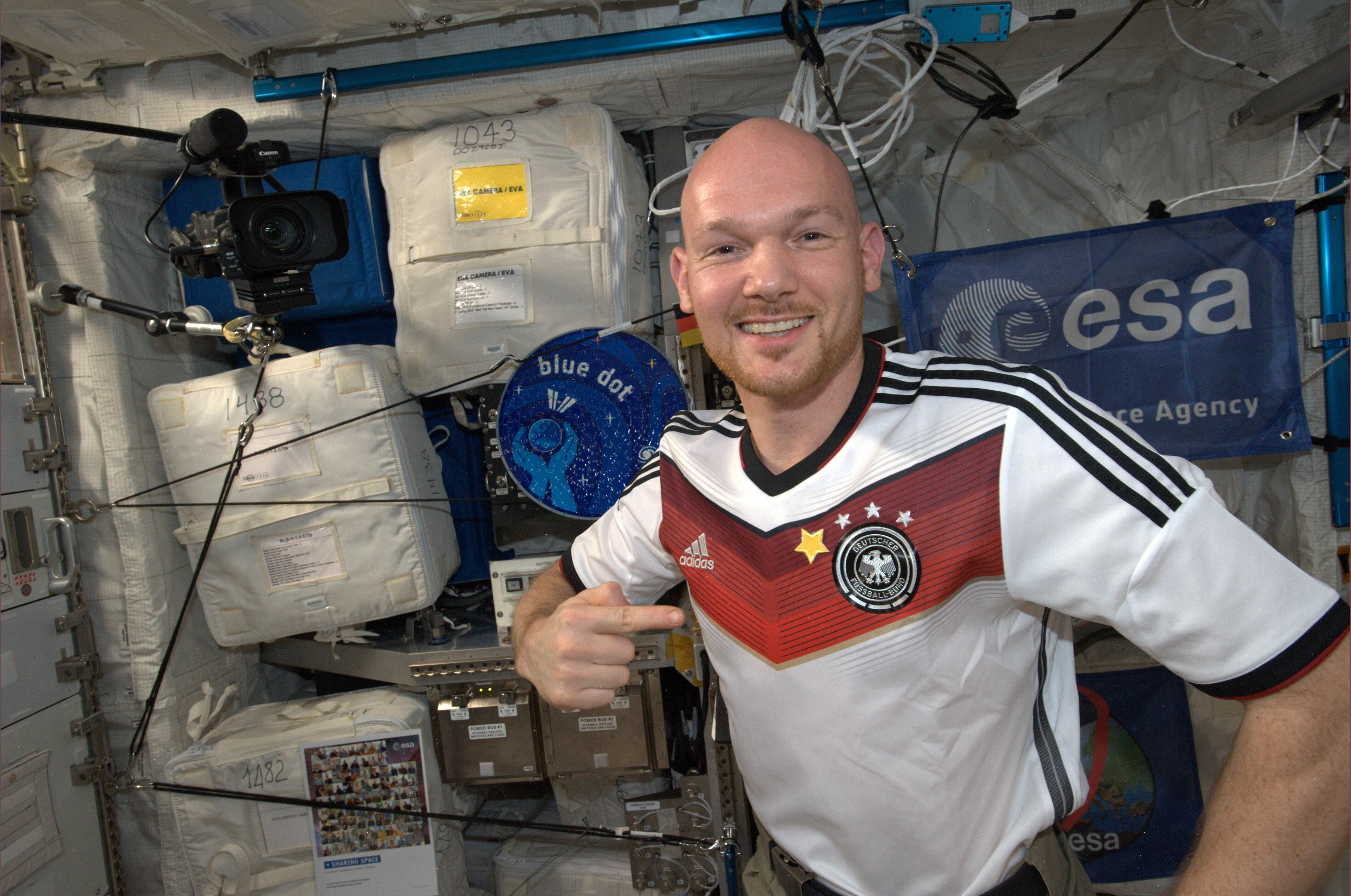 Congratulations from the #ISS to @DFB_Team for top performance! As experts in the field of stars we have already get one…